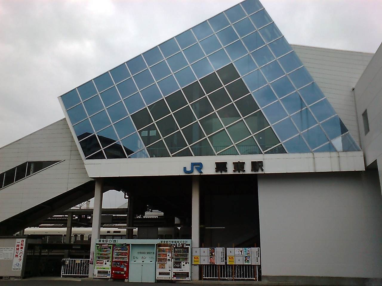 JR Ritto Station Front View